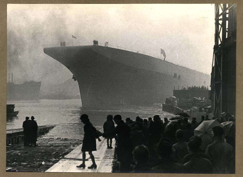 This is a photograph of the HMS Albion afloat on the River Tyne after launch by Swan Hunter and Wigham Richardson Ltd 1947. Image reference: DS.SWH/4/PH/4/1721/34-36 This image is part of a small selection of photographs from our outstanding shipbuilding collections, which have just been added to UNESCO's UK Memory of the World register. (Copyright) We're happy for you to share these digital images within the spirit of The Commons. Please cite 'Tyne & Wear Archives & Museums' when reusing. Certain restrictions on high quality reproductions and commercial use of the original physical version apply though; if you're unsure please